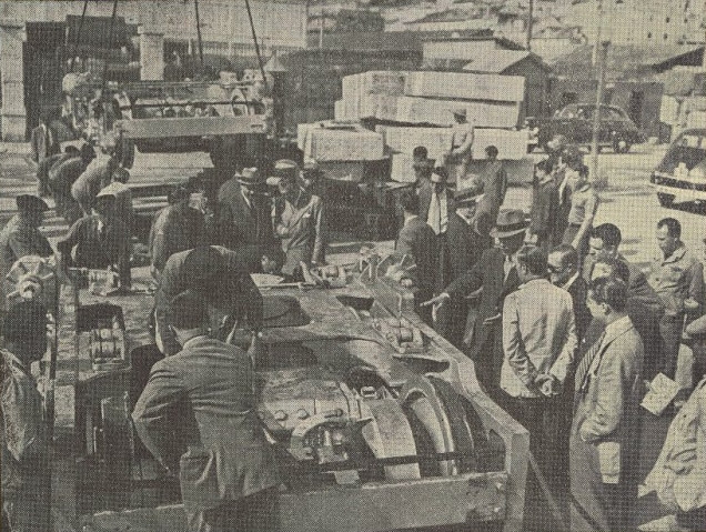 Bogie for a DE101-106 series (future 1500 series) locomotive of Companhia dos Caminhos de Ferro Portugueses (Portuguese Railways Company), after being disembarked at the Lisbon docks, in Portugal, on September 11th 1948. This image was published on the Gazeta dos Caminhos de Ferro magazine no. 1460, of the 16th October 1948, and scanned by the Hemeroteca Municipal de Lisboa.